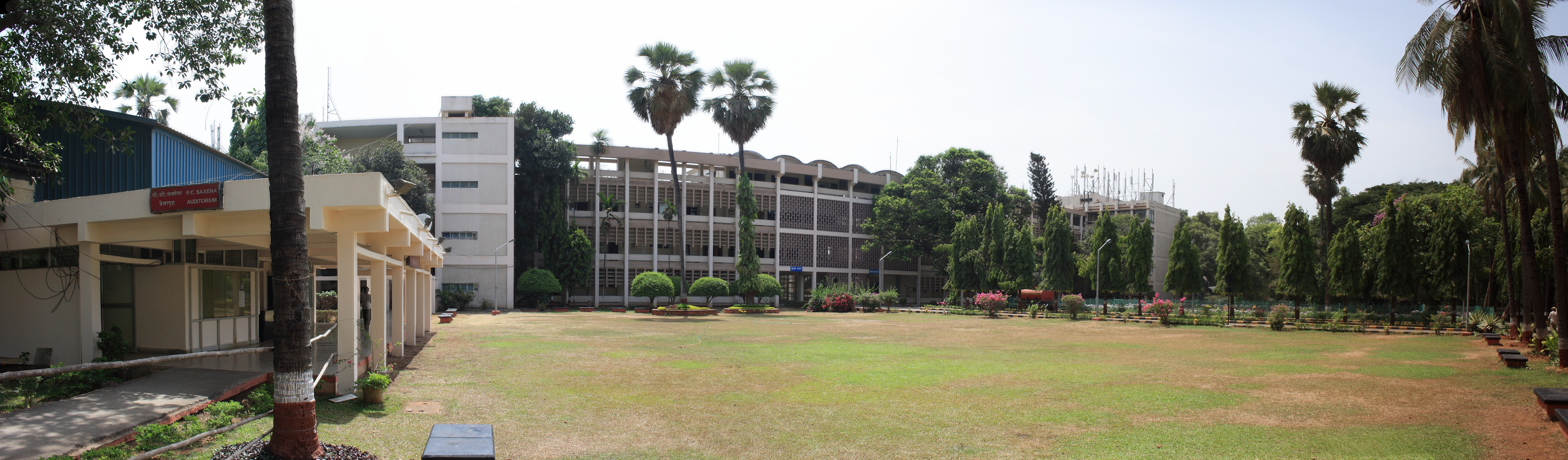 Main Buidling of IIT Bombay